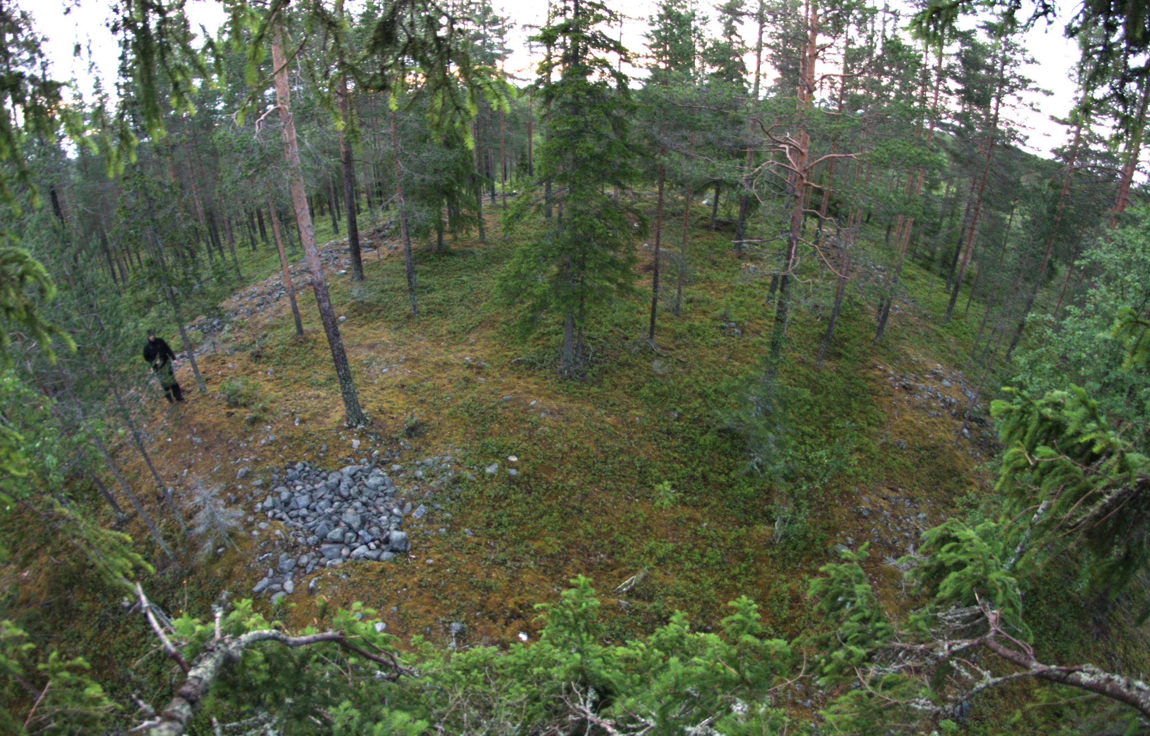 Neolithic Giant's Church of Rajakangas, Oulu, Ostrobothnia, Finland. Photographed during the Summer Solstice of 2011.